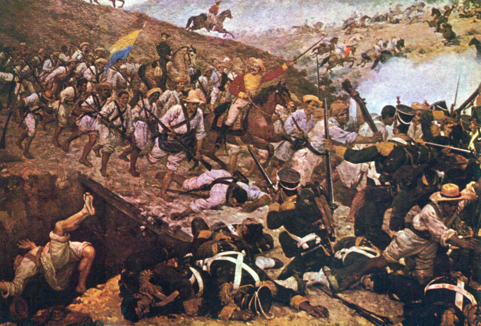 The Battle of Boyacá in the War of Independence of Colombia, Venezuela, Ecuador and Panama against Spain (Boyacá, Colombia, 1819). Painting of Martín Tovar y Tovar exhibited in the Federal Palace, Caracas